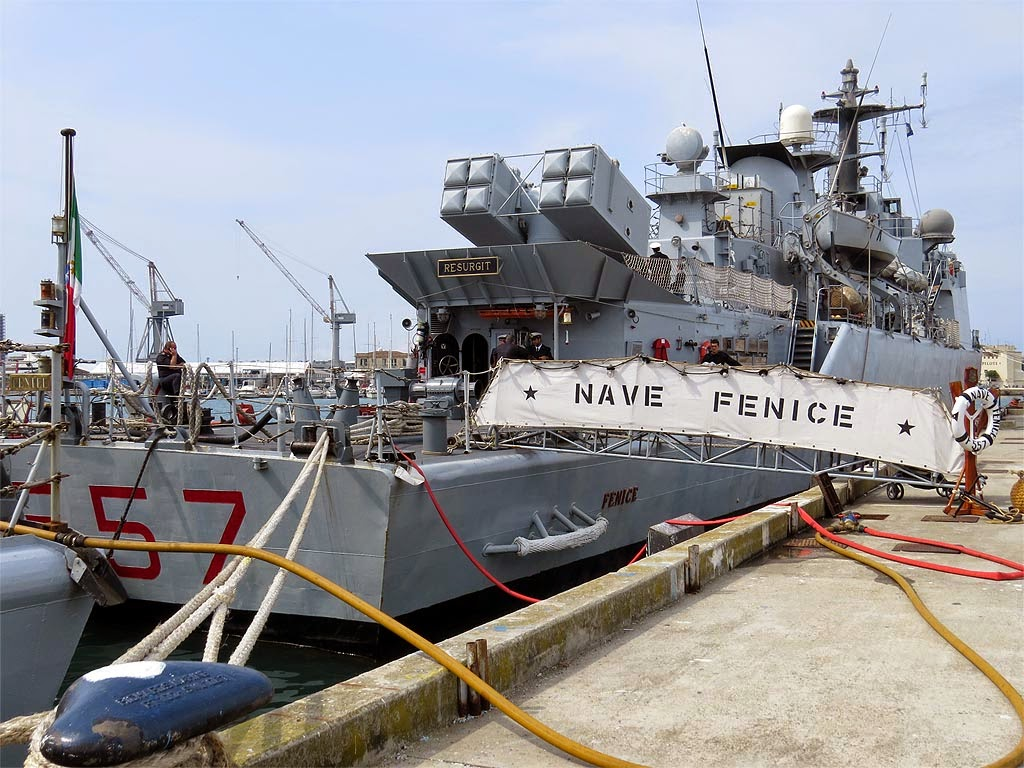 Italian Navy Minerva-class corvette “Fenice” (F 557), port of Livorno